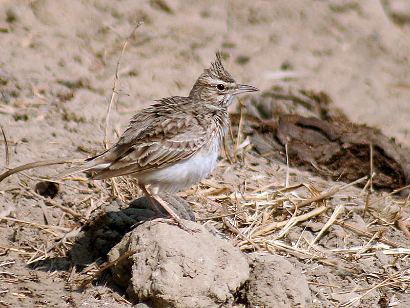 Crested Lark (Galerida cristata) at Hodal in Faridabad District of Haryana, India.